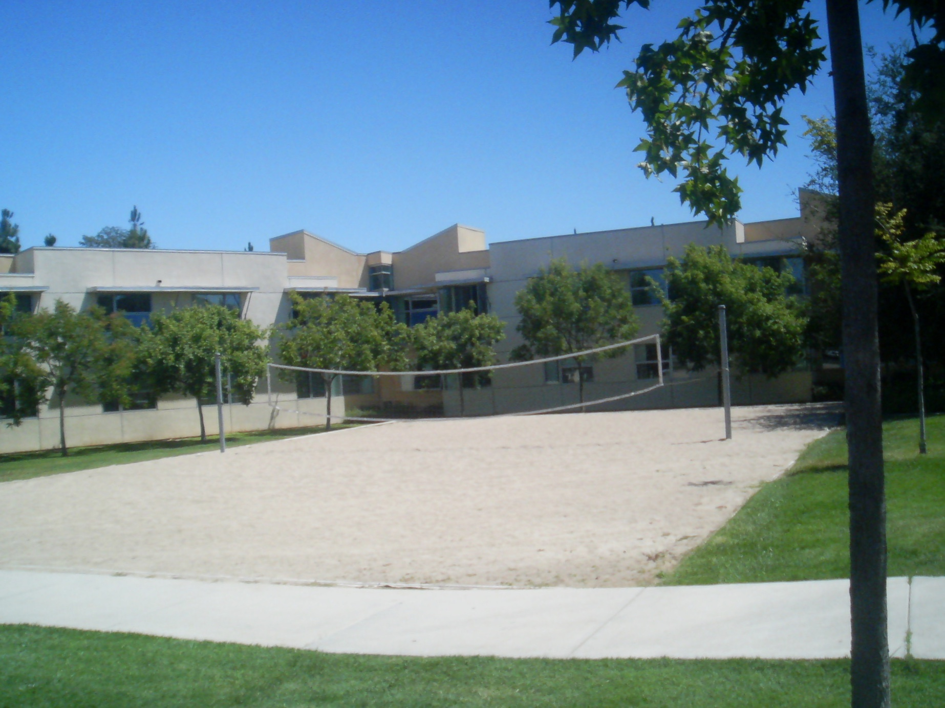 Community volleyball field at California Lutheran University.